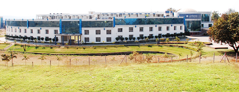 RITS Campus